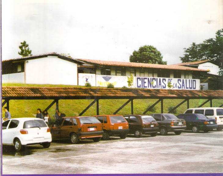 Current headquarters of the Faculty of Nursing in San Juan de los Morros, owned by UNERG. Building where some nurses of the country are prepared.